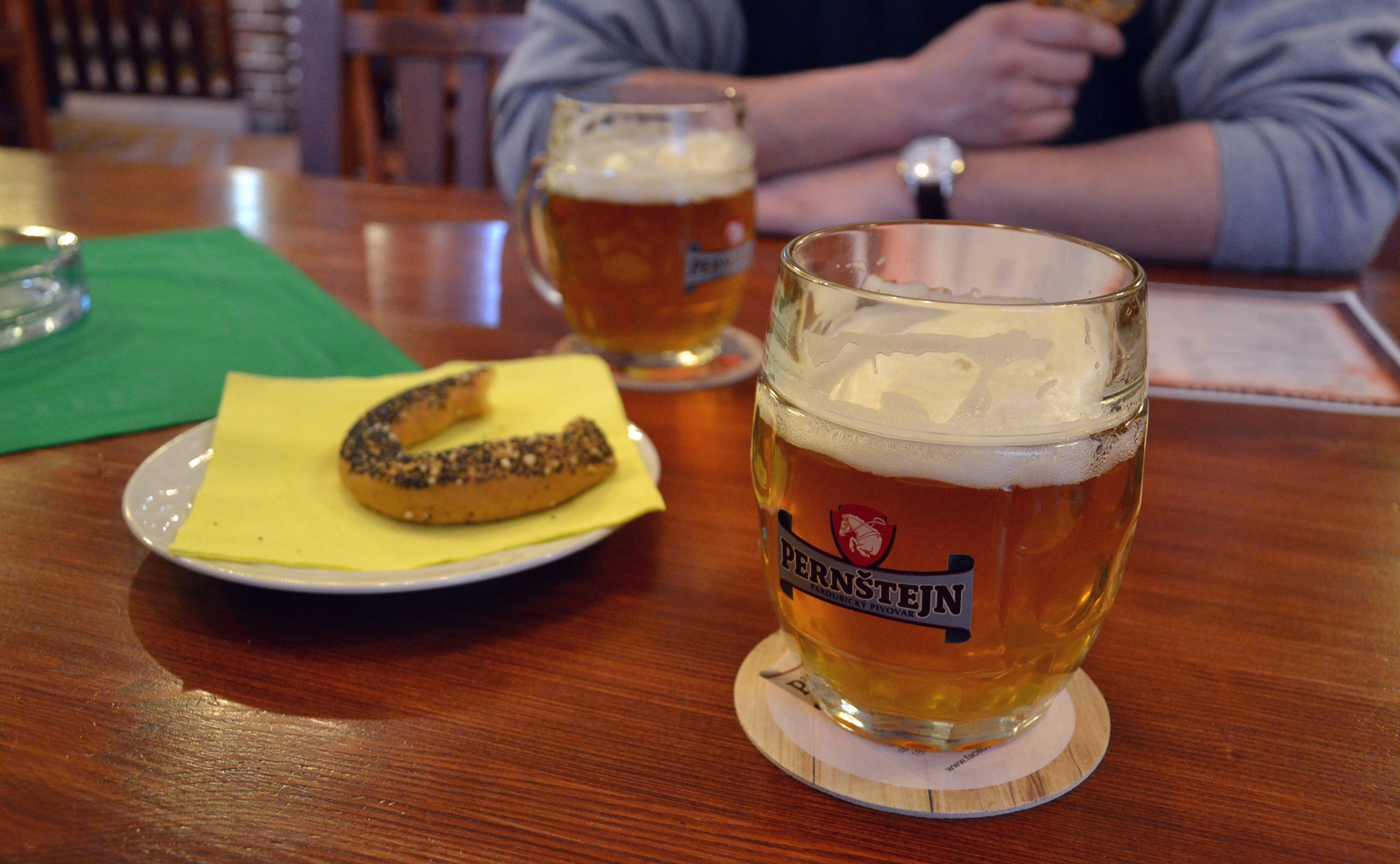 Pernštejn beer in restaurant Pivovarka, Pardubice (Pardubitz), Czech Republic